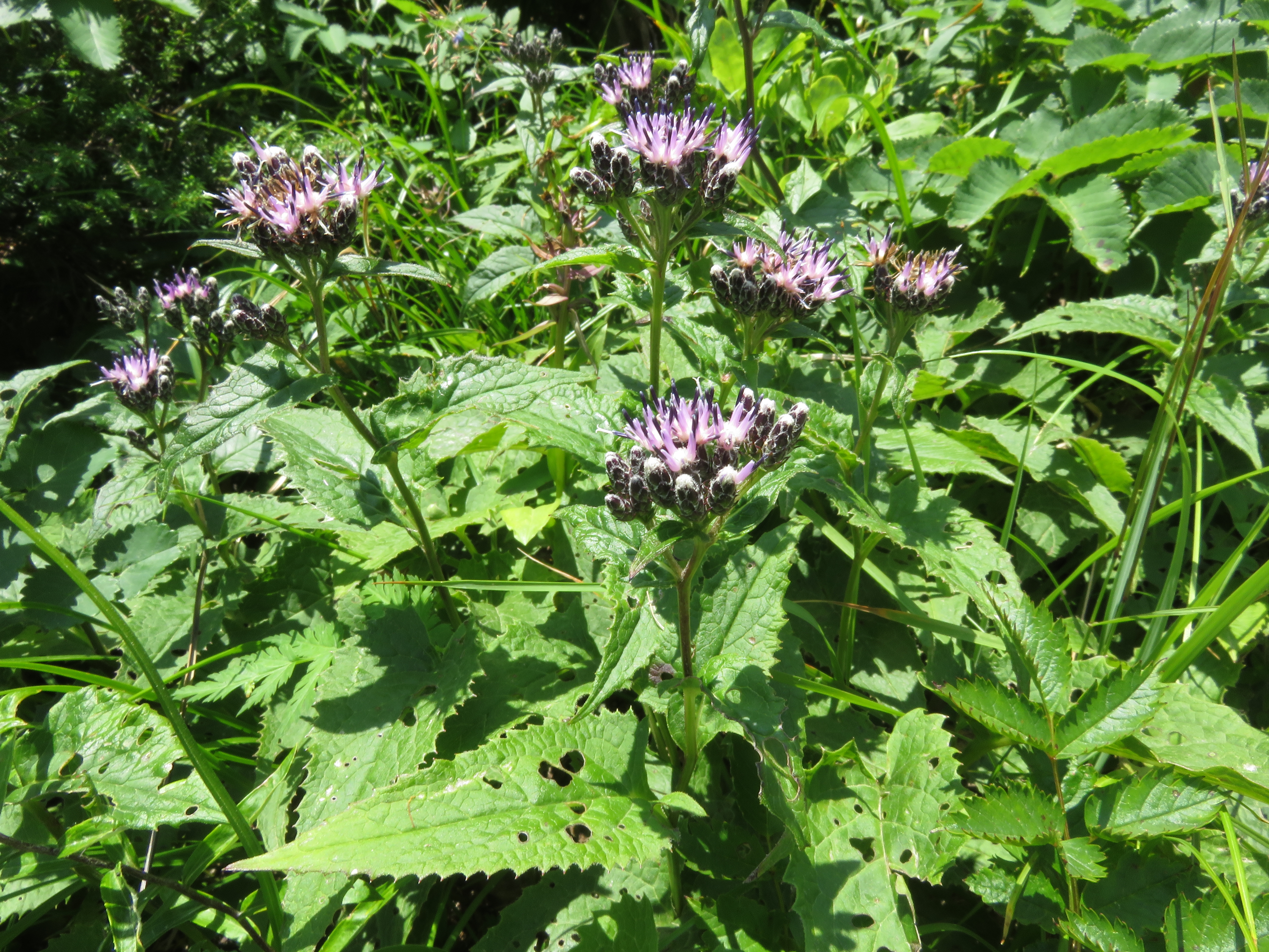 Saussurea riederi subsp. yezoensis, Mount Hayachine, Iwate pref., Japan